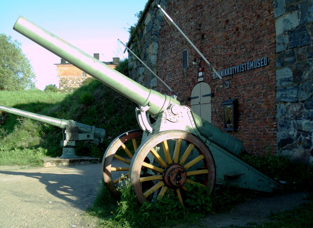 Russian 6 inch 200 pood siege gun model 1904. This particular gun was manufactured in Perm in 1910. displayed in front of Coastal Artillery Museum in Suomenlinna fortress, Helsinki. Photo taken on June 10, 2006. Source: Photo by me, User:Balcer.